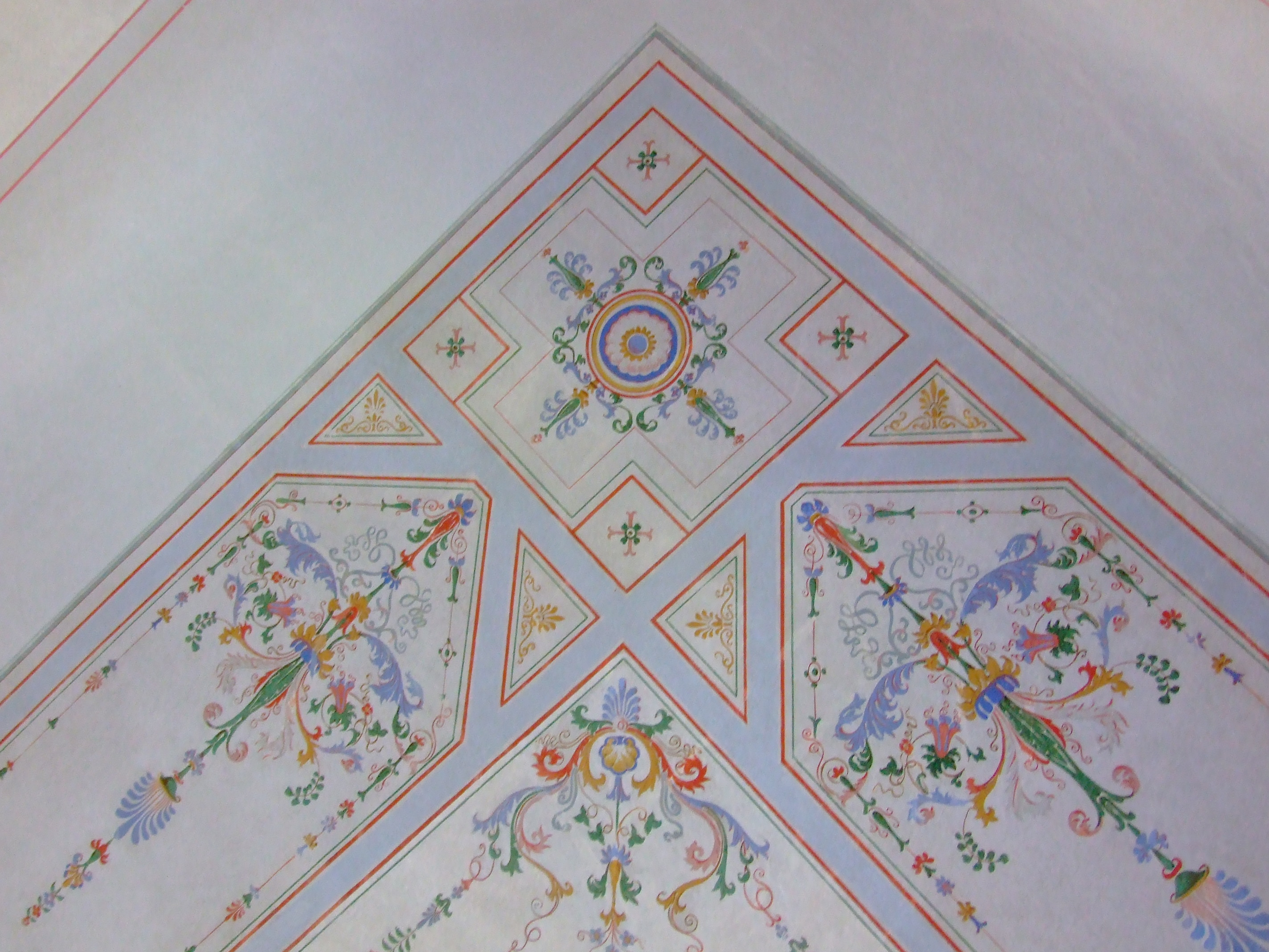 Painted ceiling at Nižbor castle, Central Bohemian region, CZhelp